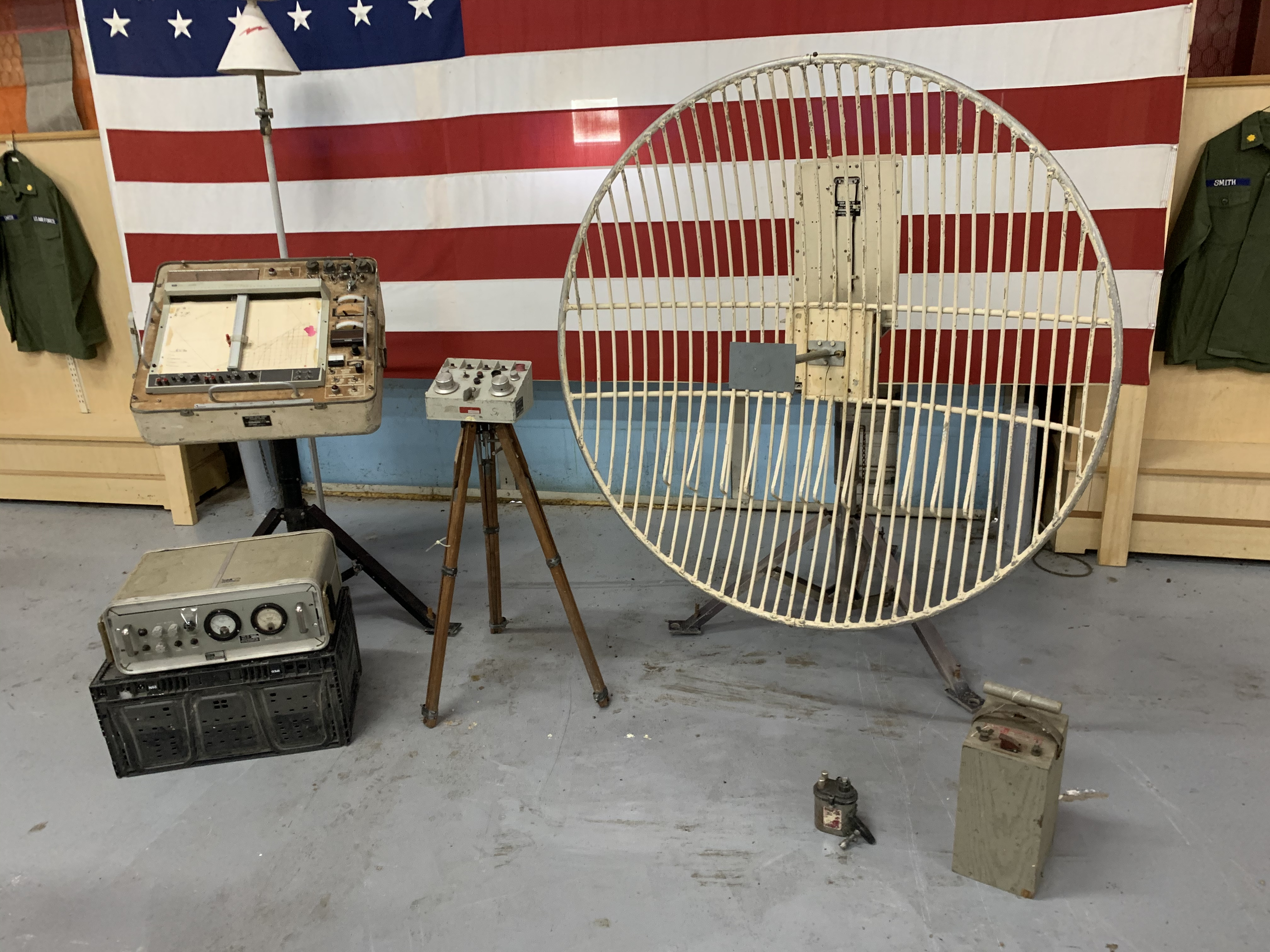 BTT hardware